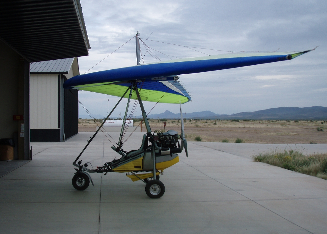 Side view of Air Creations GTE a weight shift control light sport aircraft.